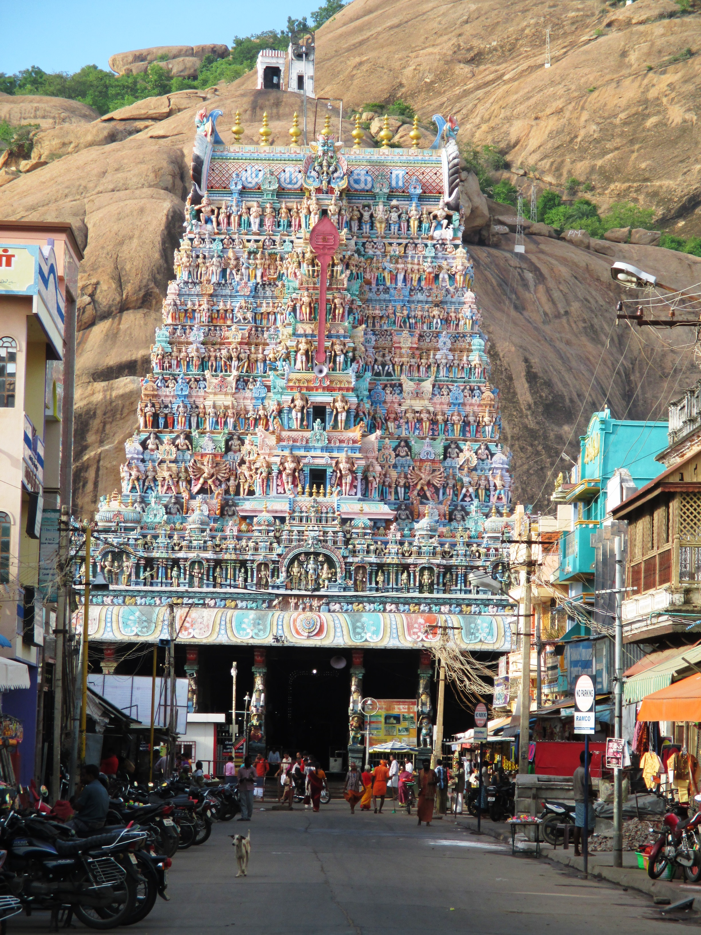 Tirupparamkundram